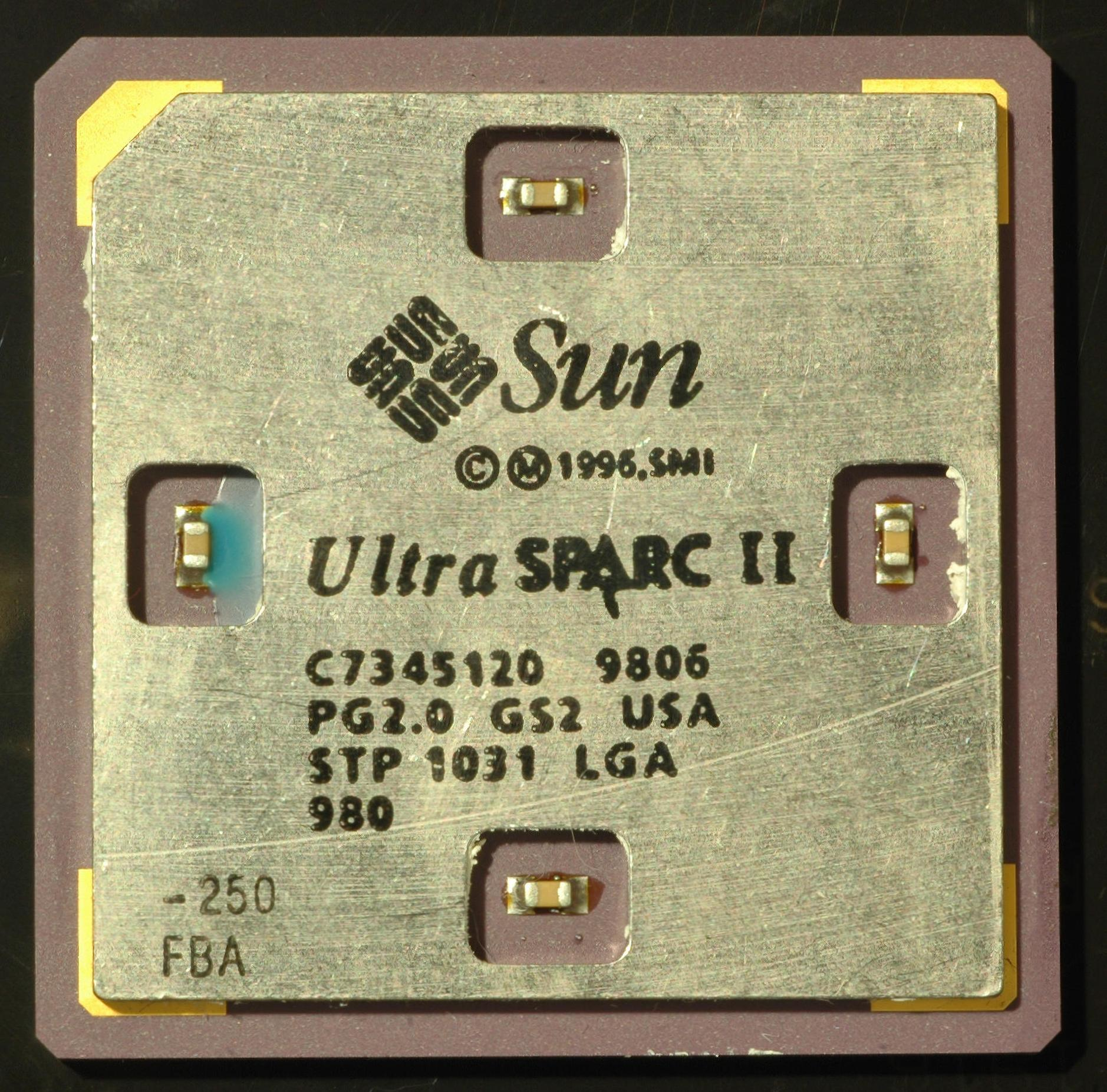 UltraSPARC-II 64-bit RISC microprocessor, front.